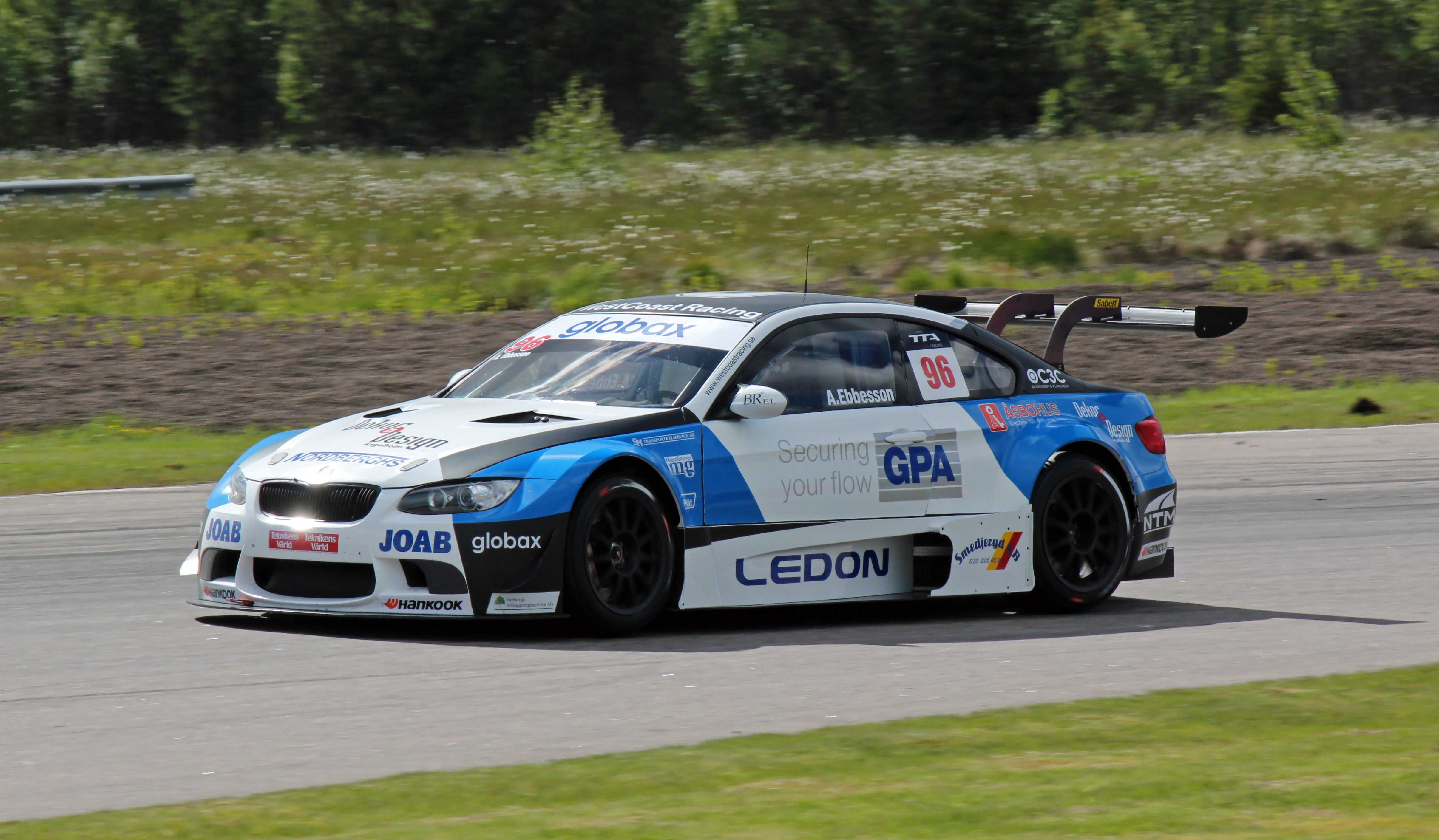 Andreas Ebbesson in his BMW M3 Solution-F for WestCoast Racing in TTA – Racing Elite League at Anderstorp Raceway in 2012.